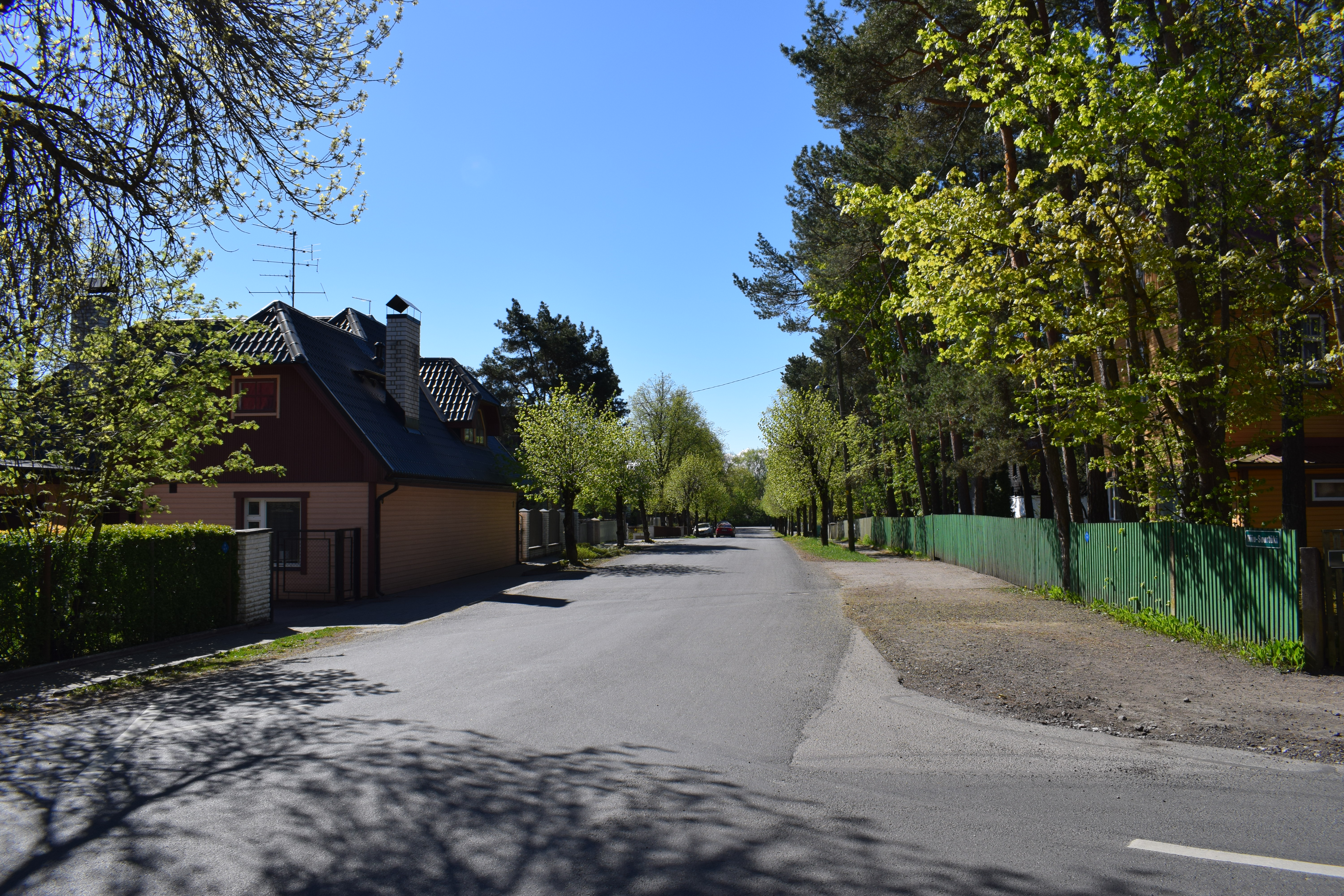 Hiiu-Suurtüki street